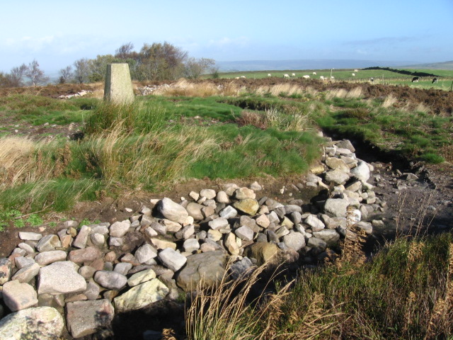 Trig point S2770 on Mellor Moor